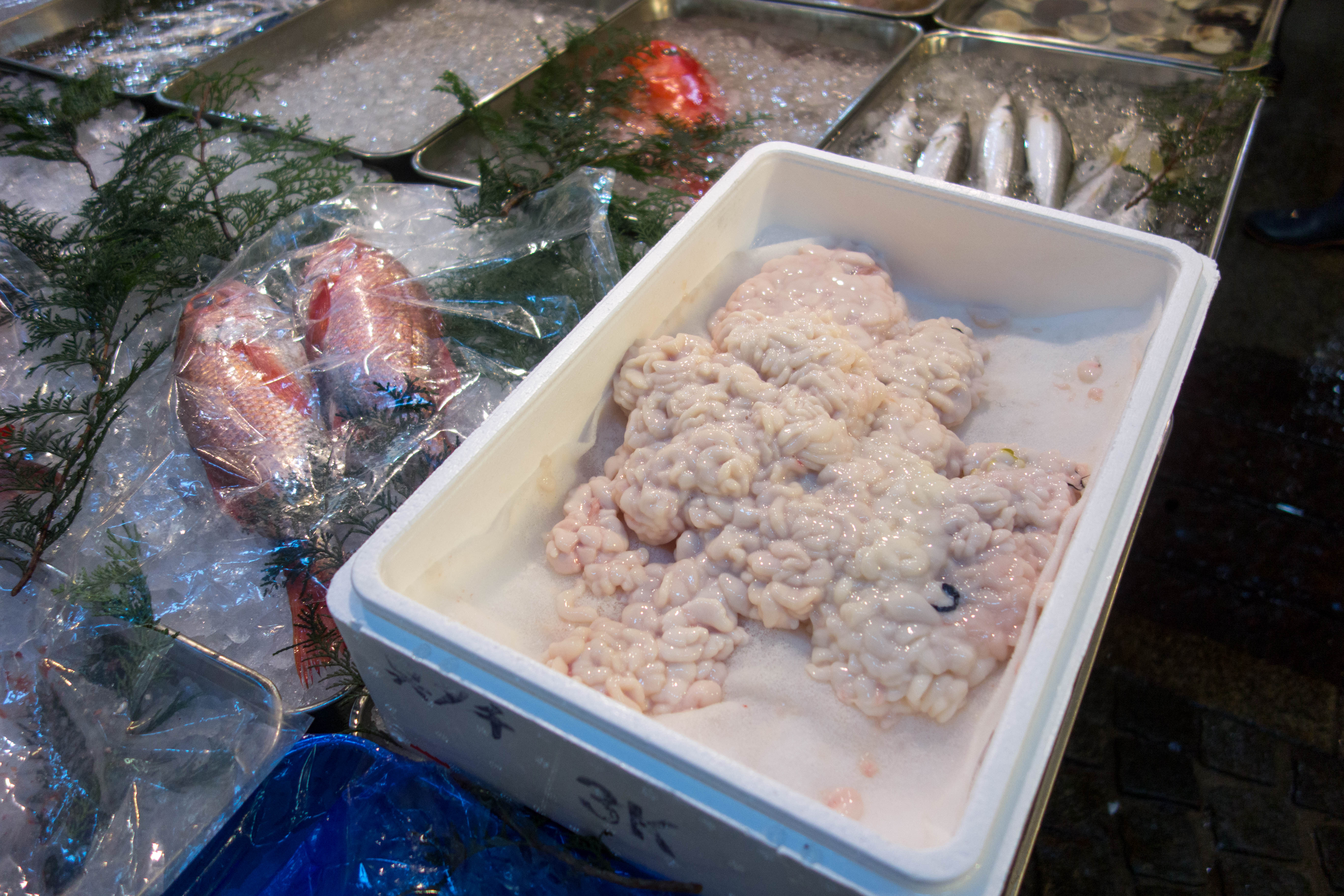 I'm not sure, but I think it's smelt milt, which is the semen sac of the smelt. I had smelt milt tempura at a restaurant and it was amazing.